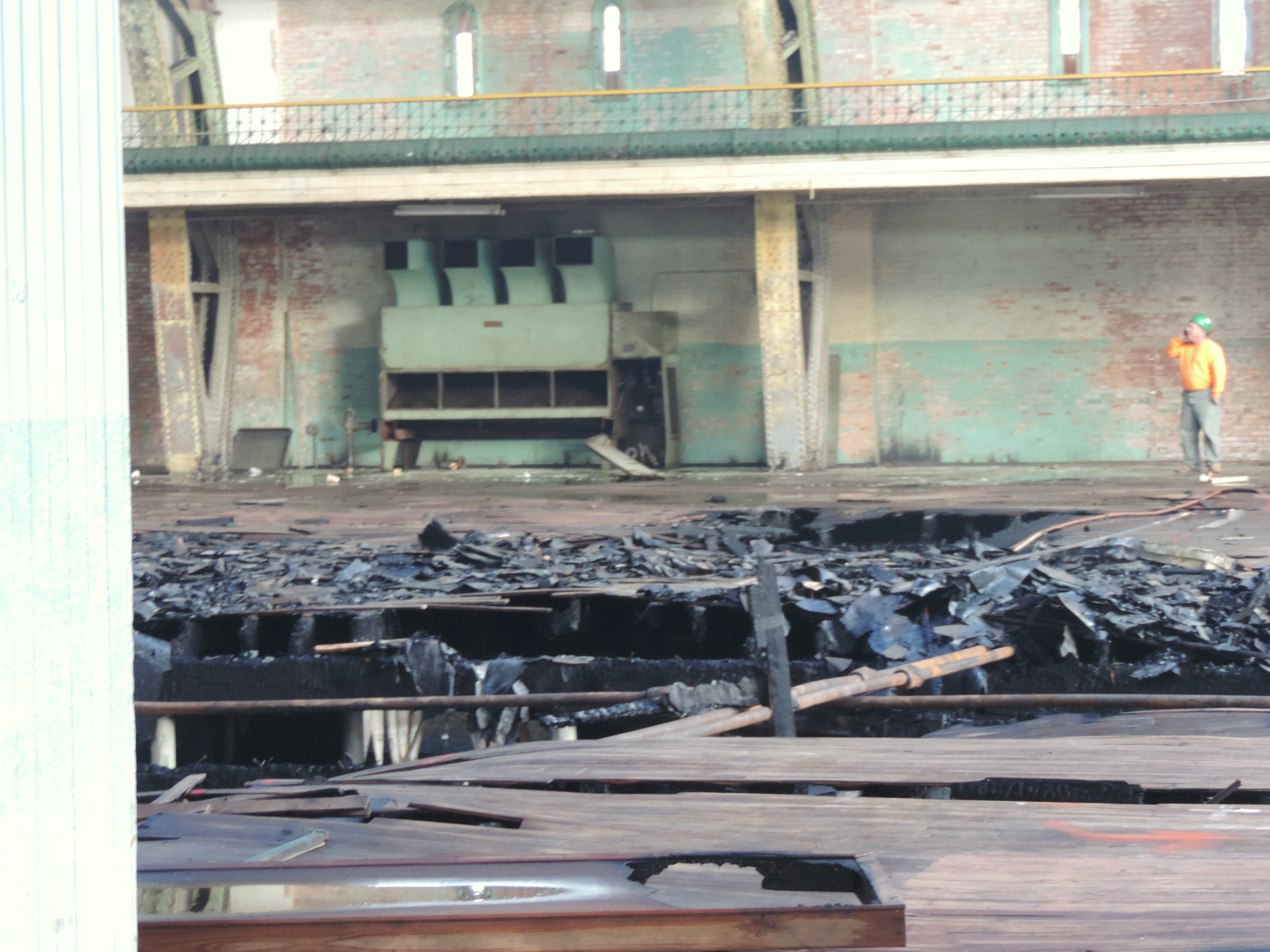 Fire damage to drill floor